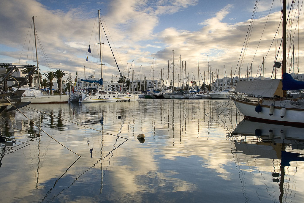 Early Morning At Port El Kantaoui